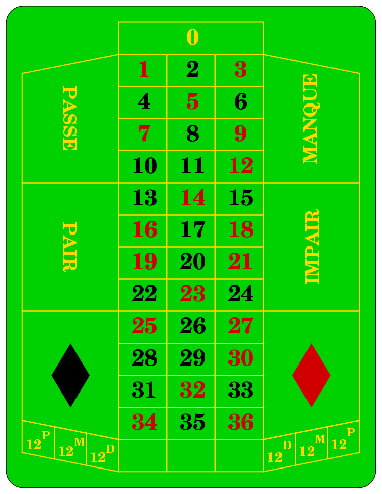 französisches Roulettefeld